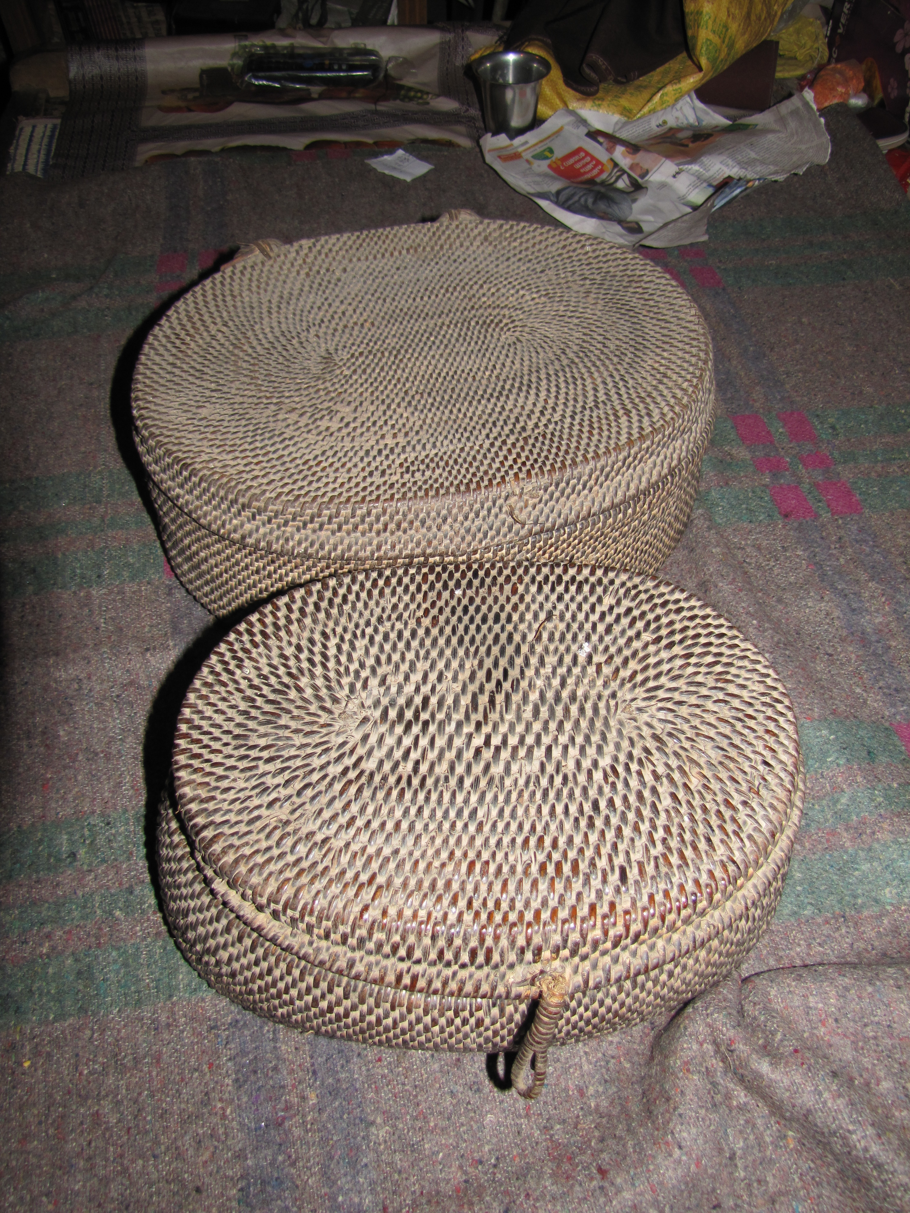 Handicrafted Box using Calamus rotang